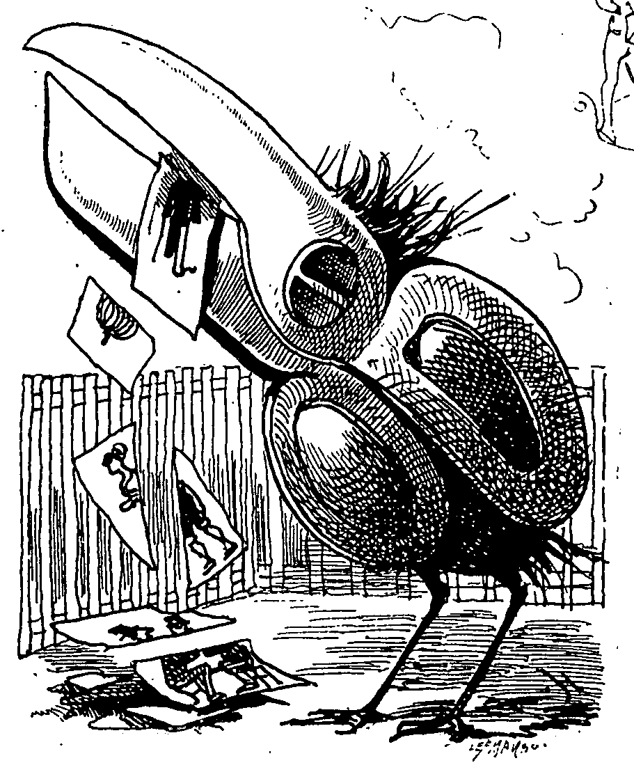 La Censure (Censorship) as portrayed by Léon Bienvenu (1835-1911)